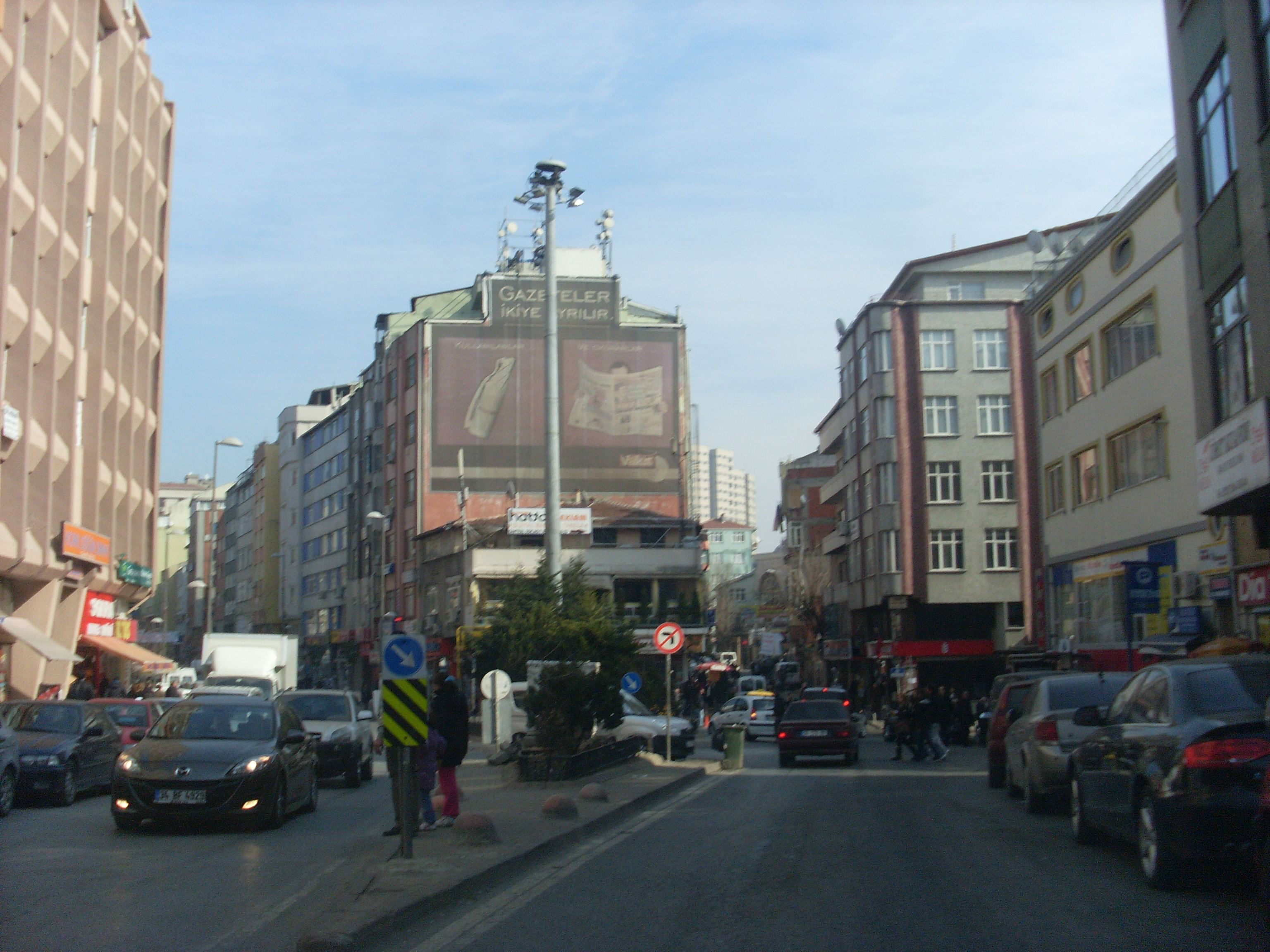 Gültepe Ortabayır Meydan